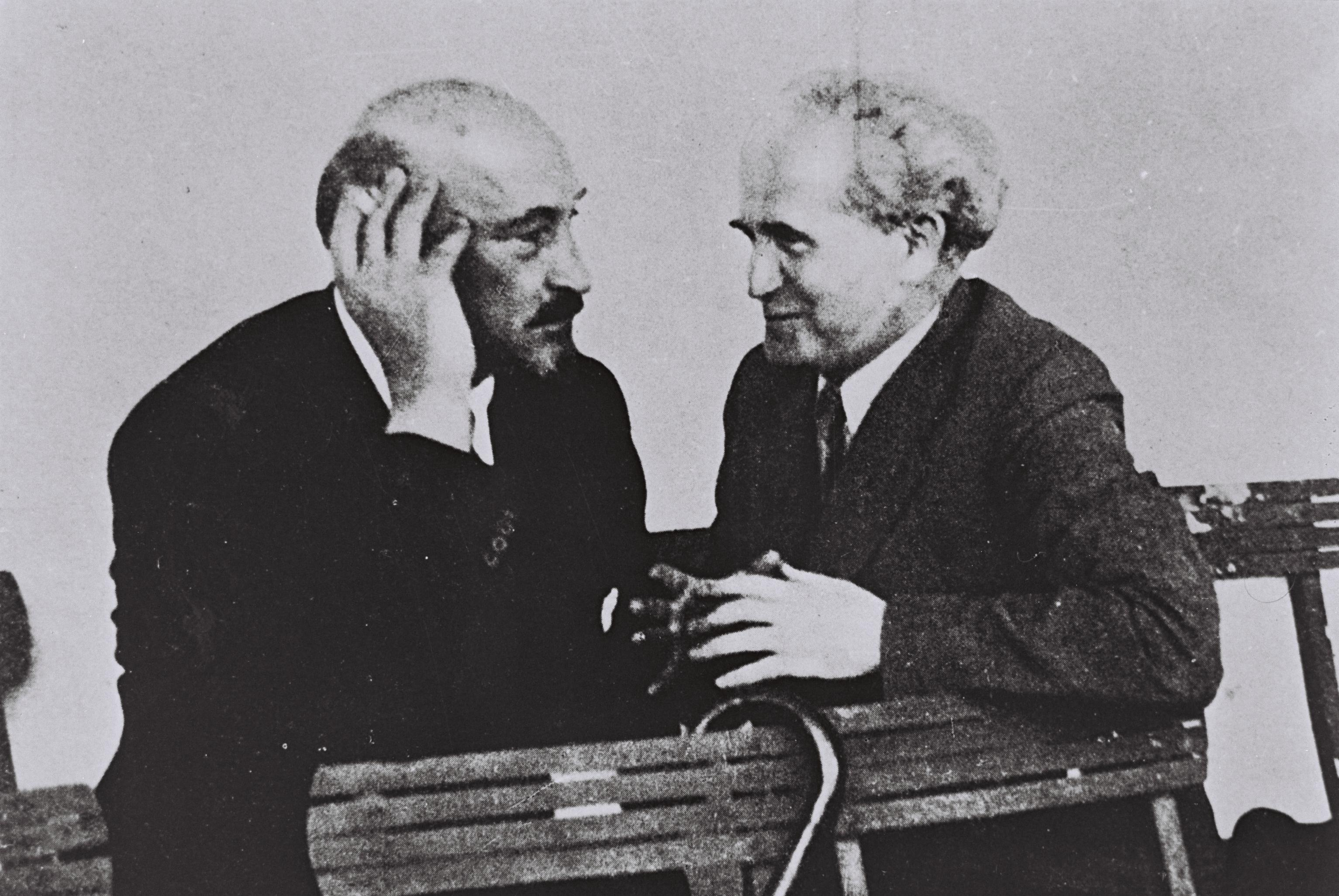 PROF. CHAIM WEIZMAN AND DAVID BEN GURION (R) MEETING IN SWITZERLAND. פגישת פרופסור חיים ויצמן (משמאל) עם דוד בן גוריון בשוויץ.